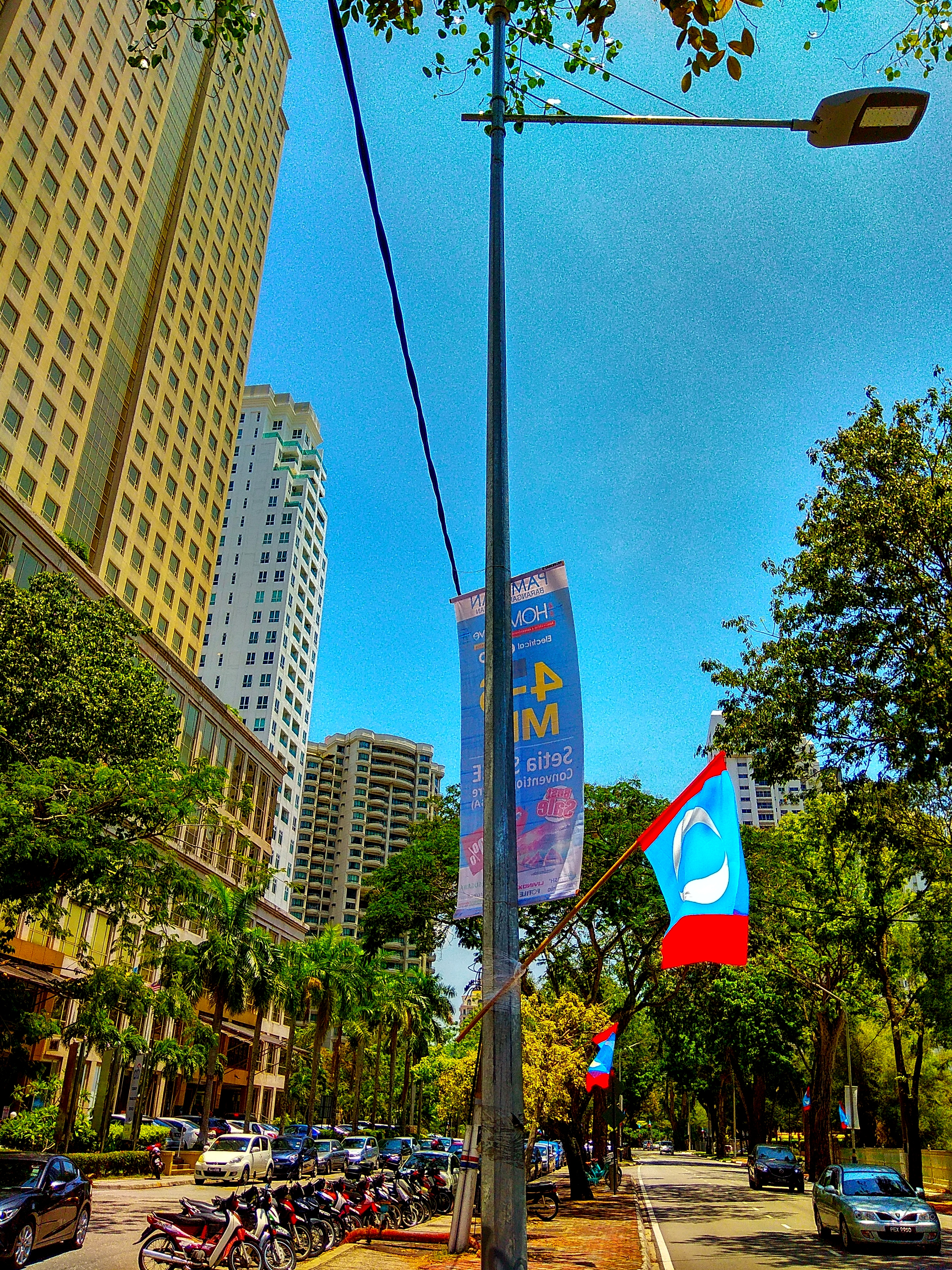 Flags of the People's Justice Party (PKR) along Northam Road in the city of George Town in Penang, Malaysia in April 2018.